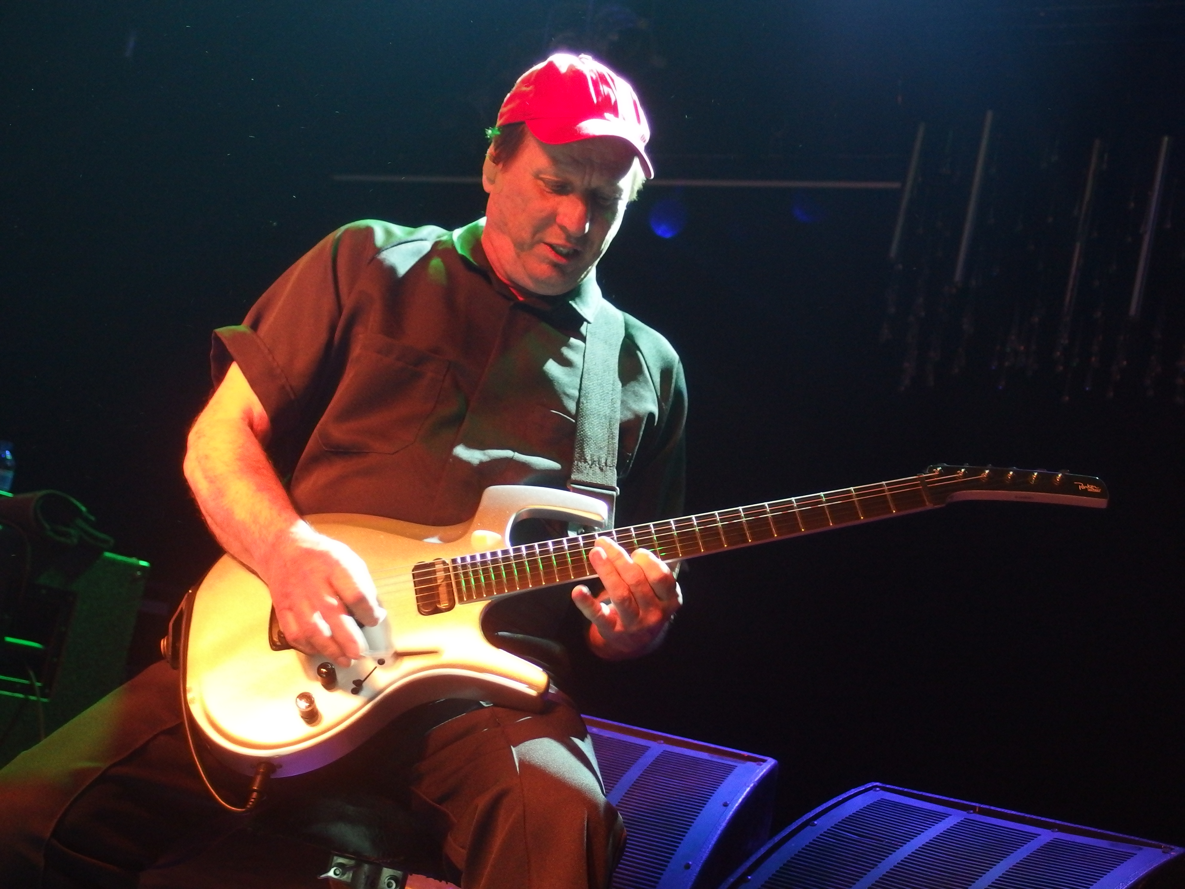 During the Adrian Belew Power Trio tour of Europe in 2017, the band played in Lisbon on April 16th, at Paradise Garage.